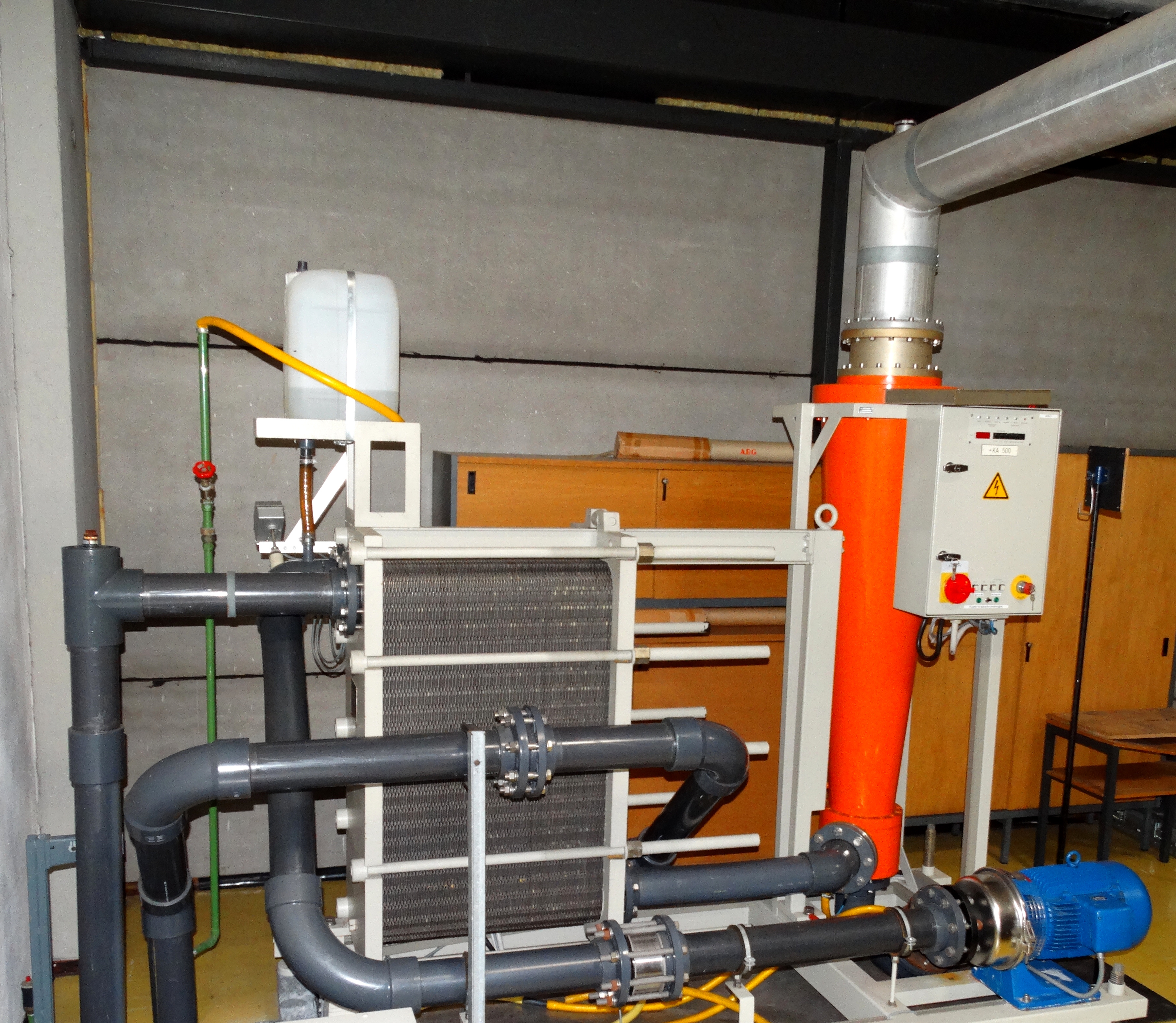 RF Dummy Load for testing purposes on a short wave transmitter at the Moosbrunn transmitting station of the Austrian Broadcasting Service (Österreichischen Rundfunksender GmbH, ORS), Moosbrunn, Austria. Uses a sodium hydroxide solution as a thermal absorber for the RF. A circulation pump is used for heat dissipation via external heat exchangers. It can dissipate up to the full 100 kW output power of the transmitter.